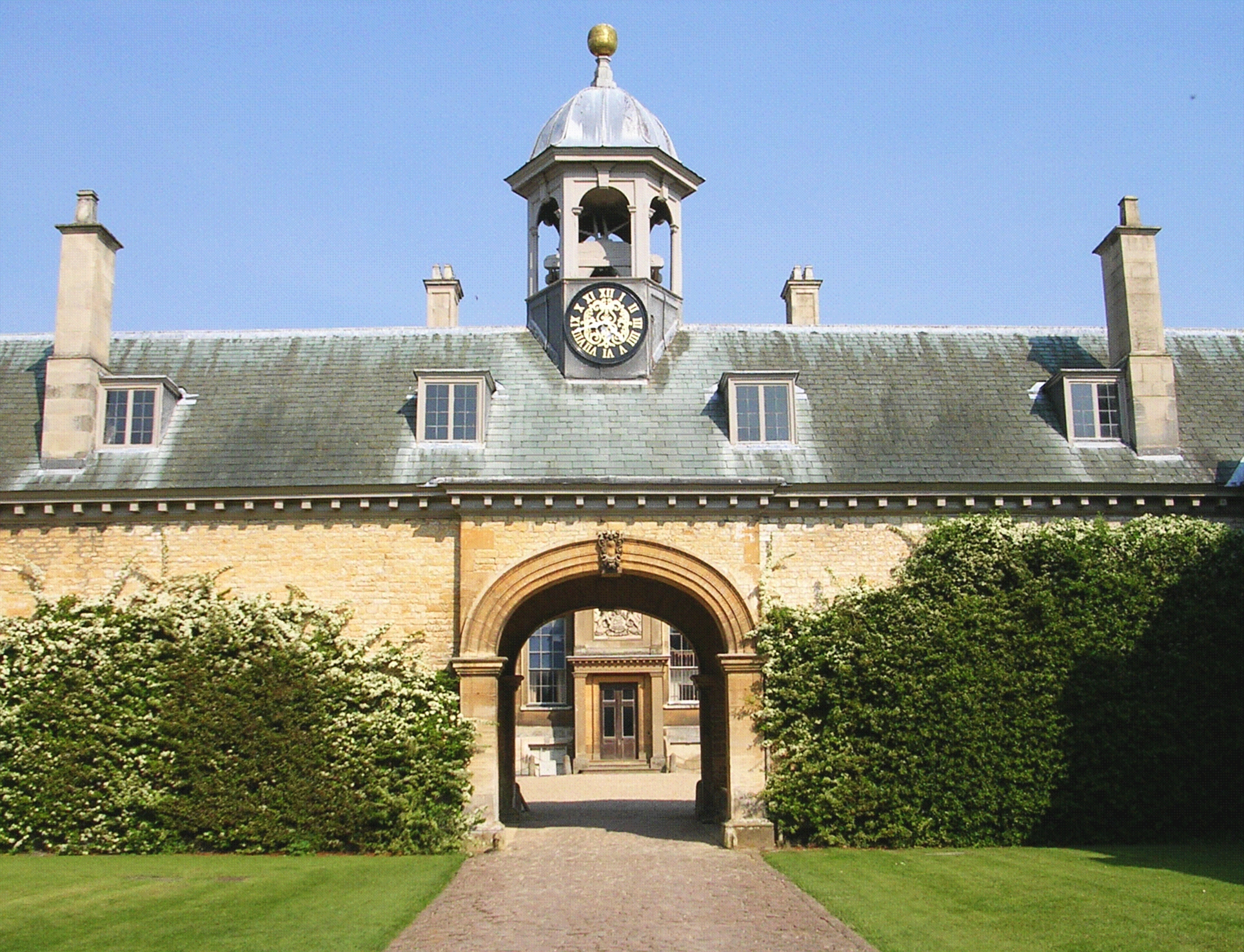 Belton House, England. Photographed by Giano June 2006. Retouched by Rugby471.